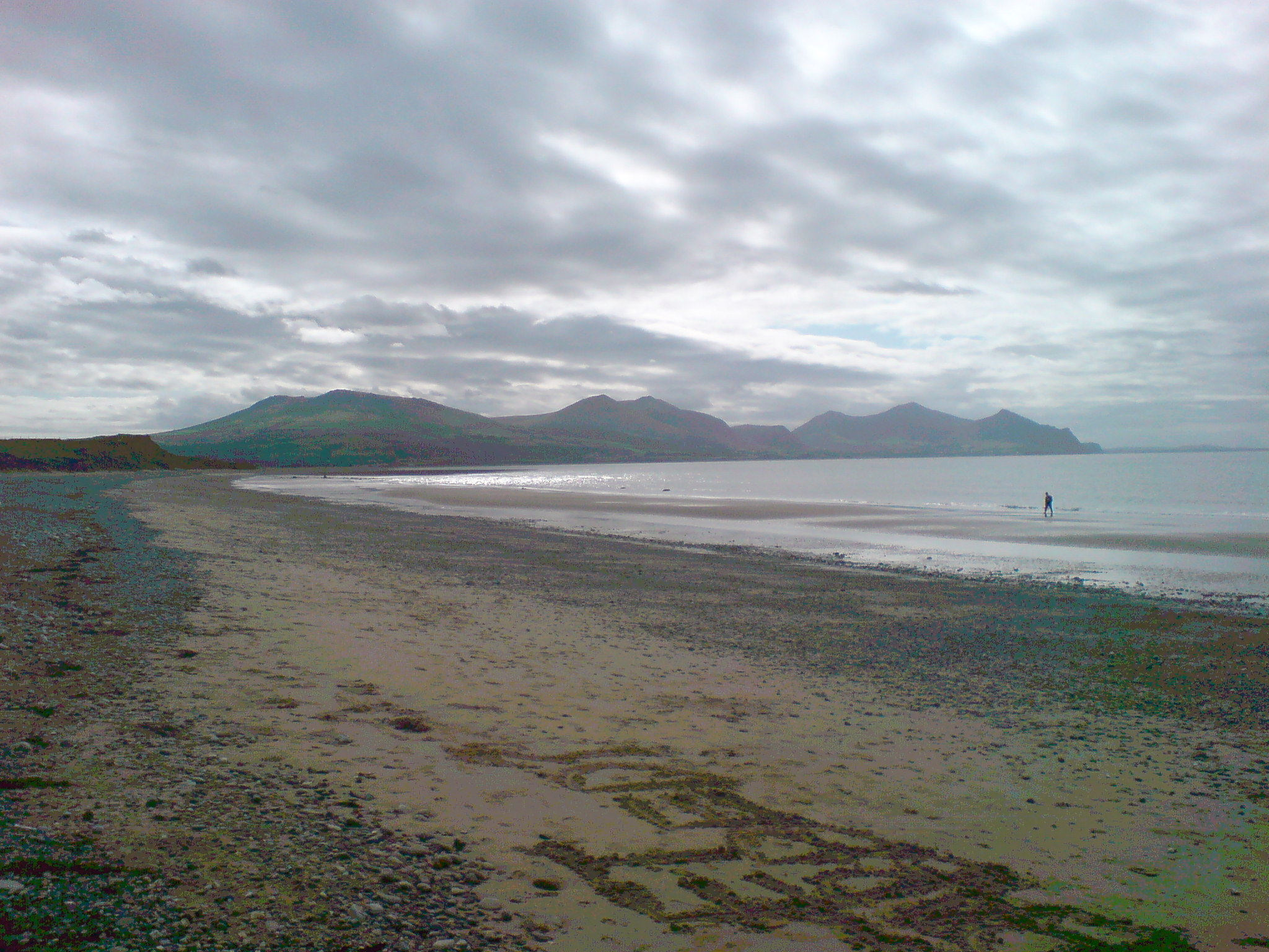 Coast of Dinas Dinlle in Gwynedd, Wales